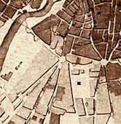 Kaluzhskaya after fire 1812, Moscow, Russia